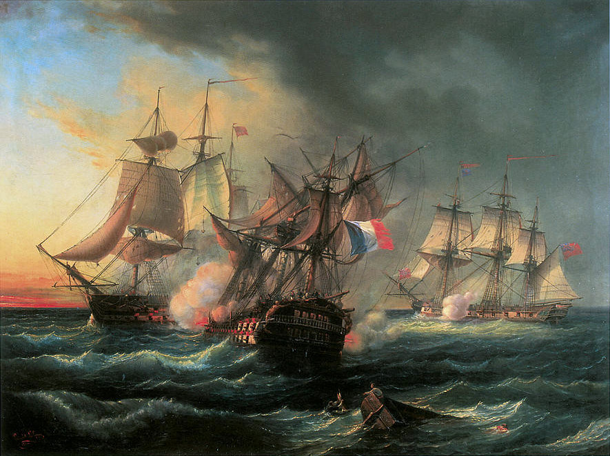 Battle between the French warship Droits de l'Homme and the frigates HMS Amazon and Indefatigable, 13 & 14 January 1797. (Indefatigable on the left, Droits de l'Homme at the centre, Amazon on the right.)